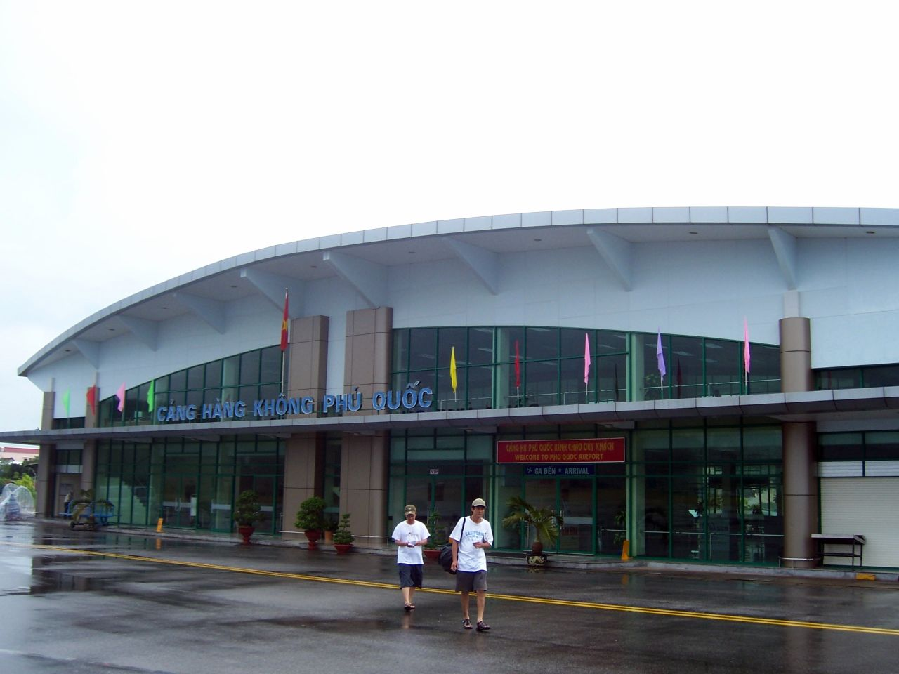 This is the airport on Phu Quoc Island. What you are looking at is the ENTIRE airport. This island is very small.